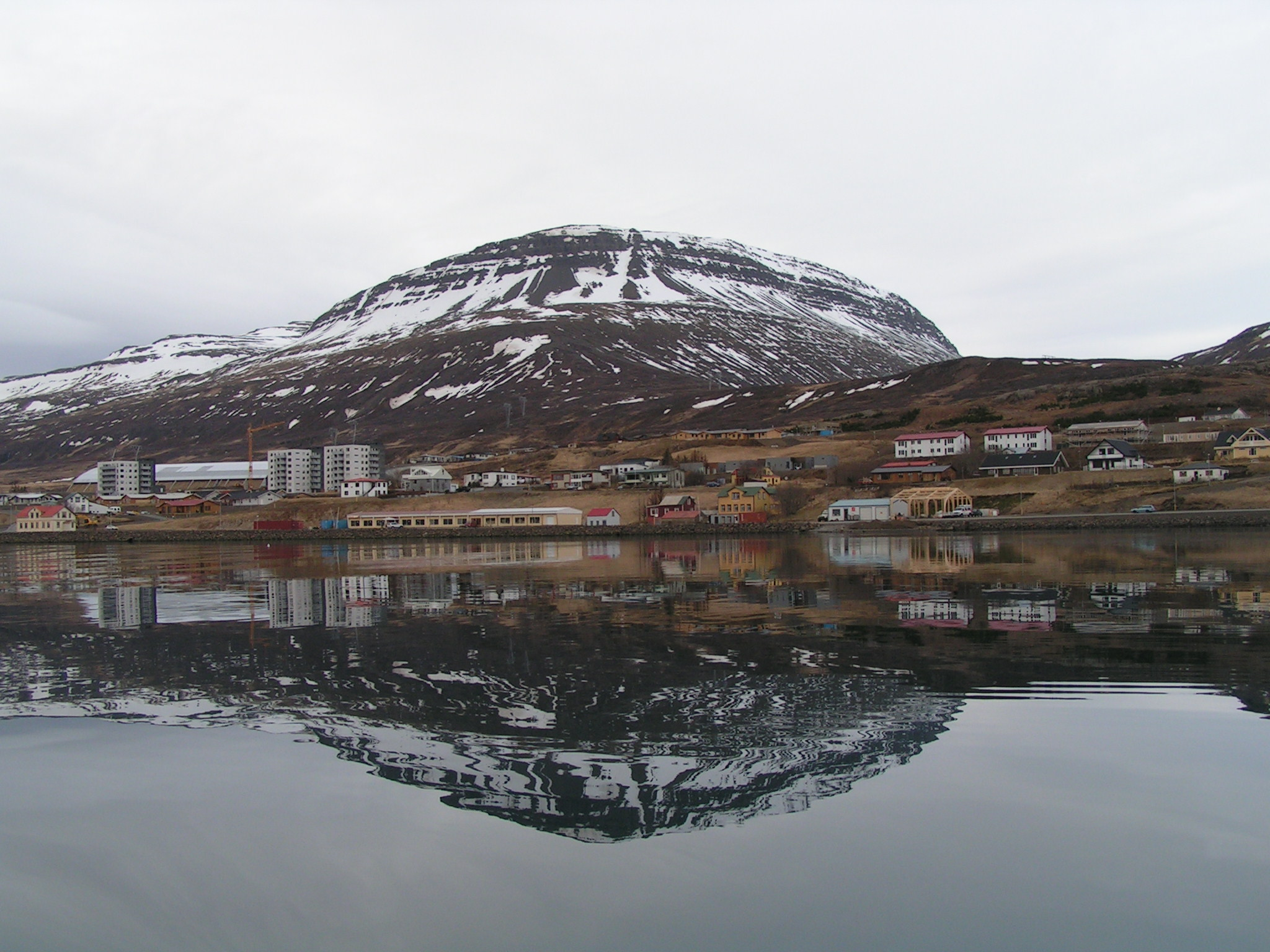 Reyðarfjörður, Iceland. Original description: Arni took us out in his boat